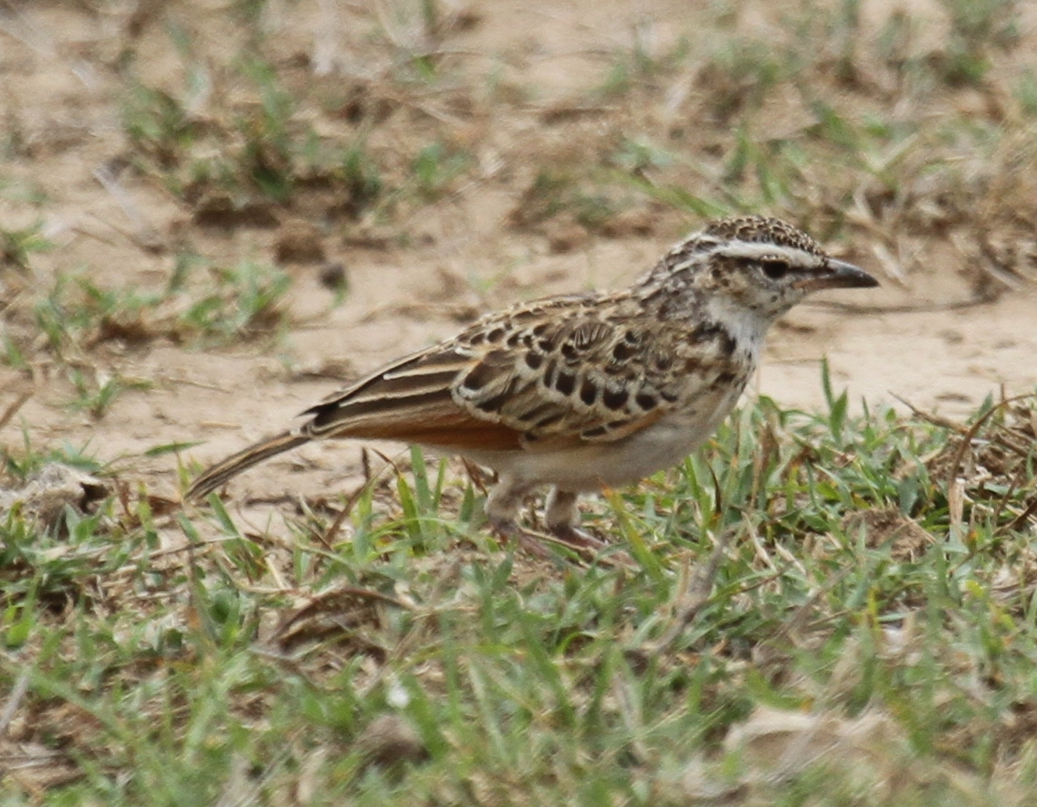 On road from Lake Navasha to Masai Mara - Kenya